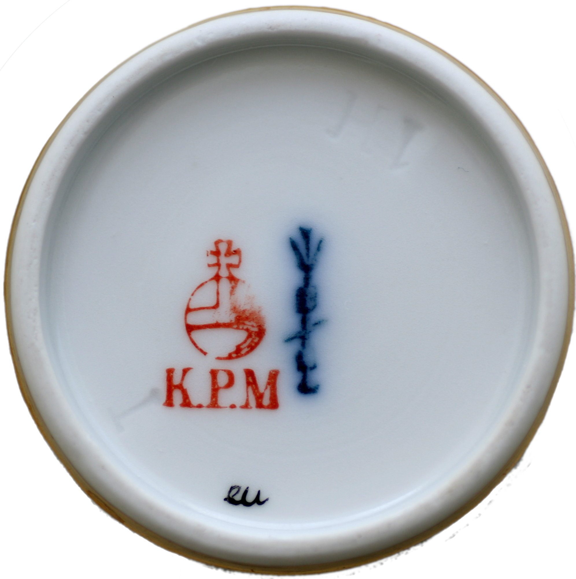 Logo of the KPM "Königliche Porzellan Manufaktur" on the backside of a cup.